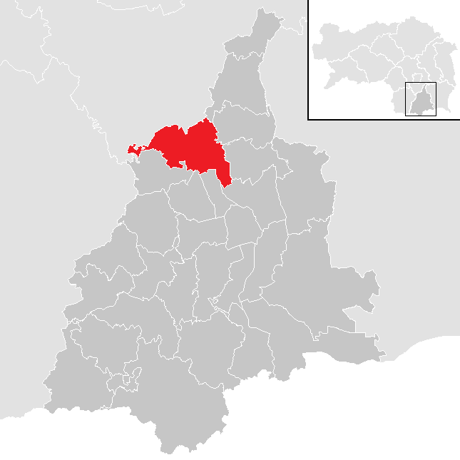 District Leibnitz